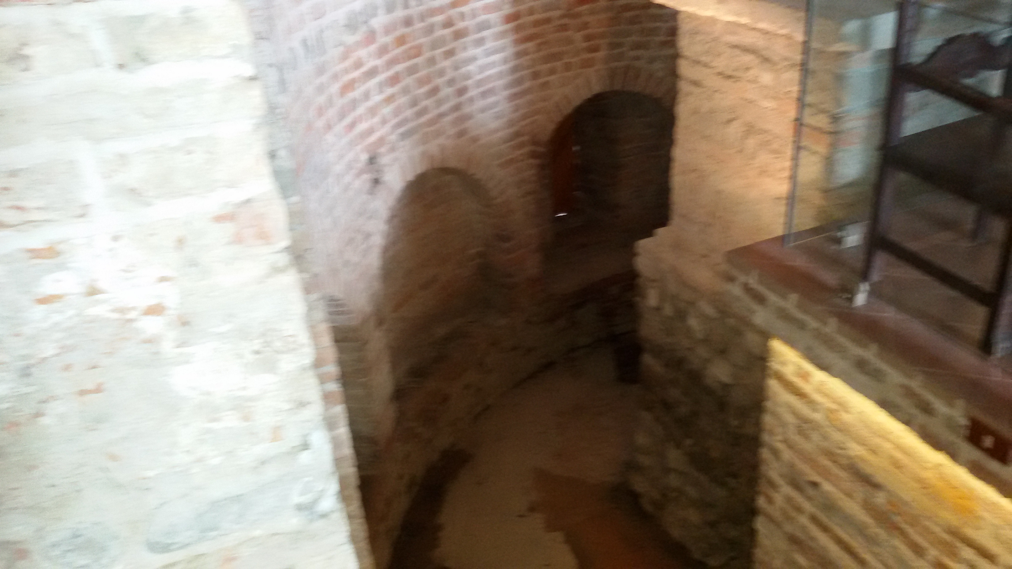 San Genesio Curch San Secondo